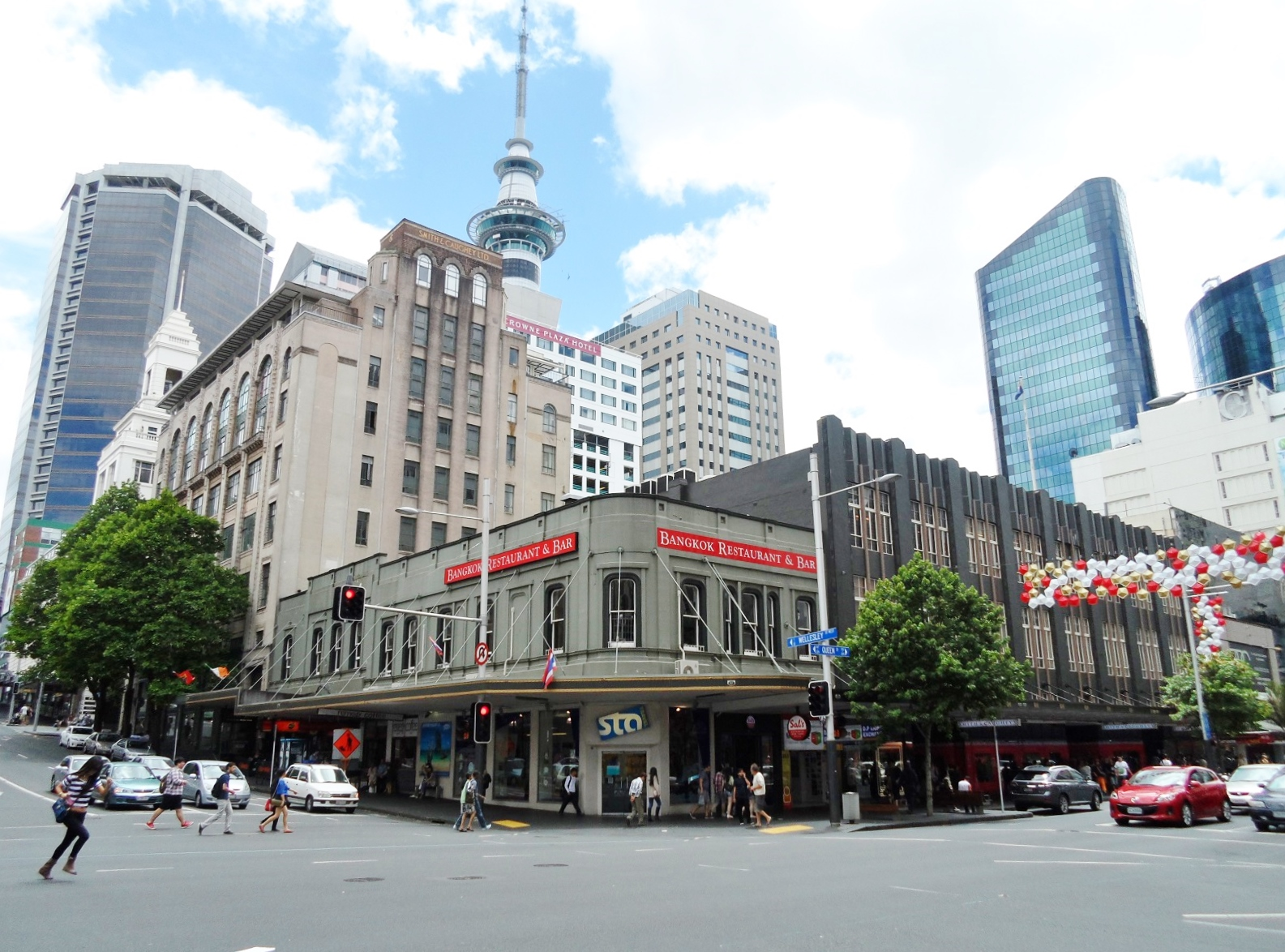 Both Queen Street and Wellesley Street West facades of Queen Street branch of Auckland, New Zealand department store Smith & Caughey's in downtown Auckland, New Zealand in 2013. The Sky Tower is visible in the background.